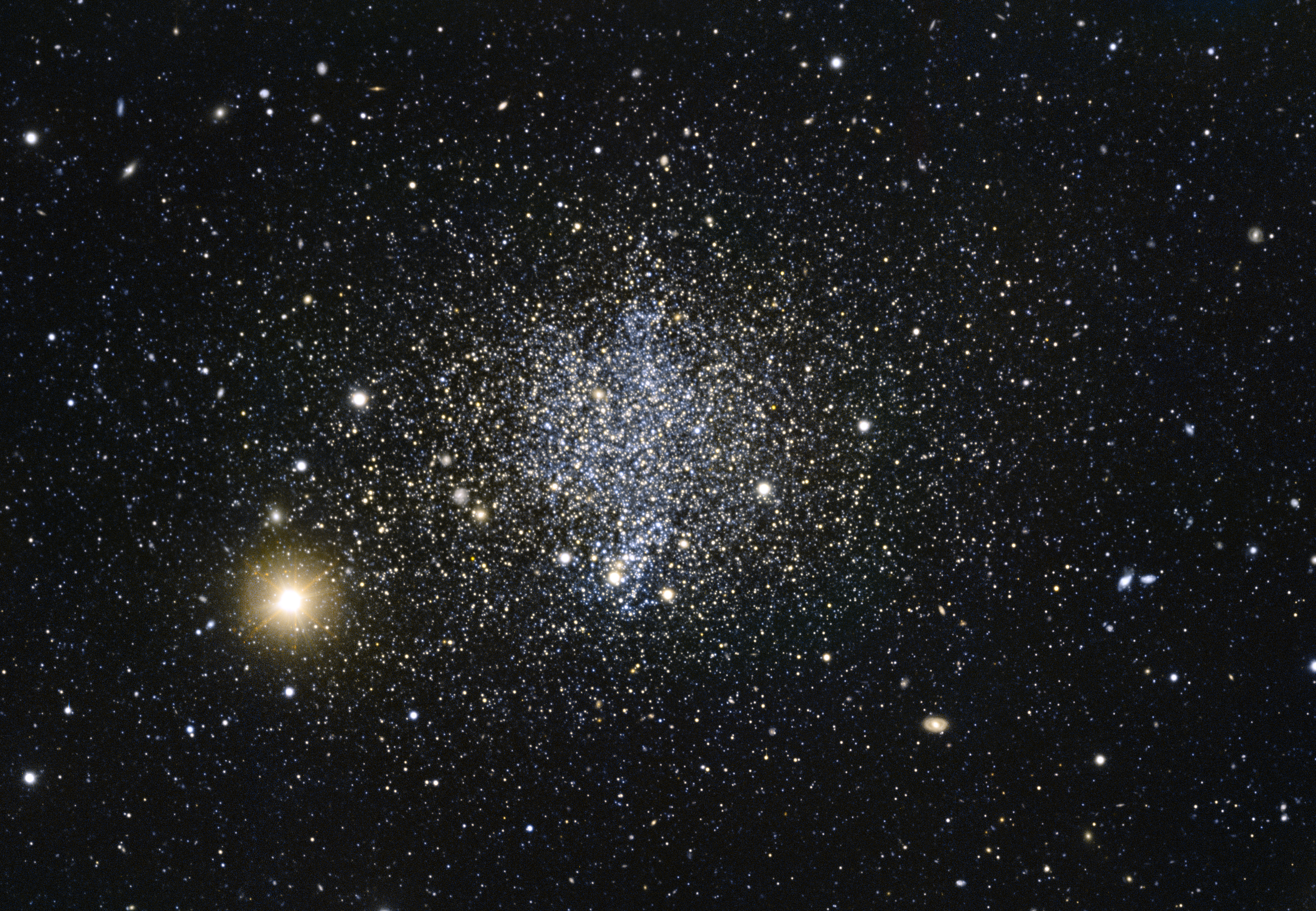 This image shows a dwarf galaxy in the southern constellation of Phoenix named, for obvious reasons, the Phoenix Dwarf. The Phoenix Dwarf is unique in that it cannot be classified according to the usual scheme for dwarf galaxies; while its shape would label it as a spheroidal dwarf galaxy — which do not contain enough gas to form new stars — studies have shown the galaxy to have an associated cloud of gas nearby, hinting at recent star formation, and a population of young stars. The gas cloud does not lie within the galaxy itself, but is still gravitationally bound to it — meaning that it will eventually fall back into the galaxy over time. Since the cloud is close by, it’s likely that the process that flung it outwards it is still ongoing. After studying the shape of the gas cloud, astronomers suspect the most likely cause of the ejection to be supernova explosions within the galaxy. The data to create this image was selected from the ESO archive as part of the Hidden Treasure competition.